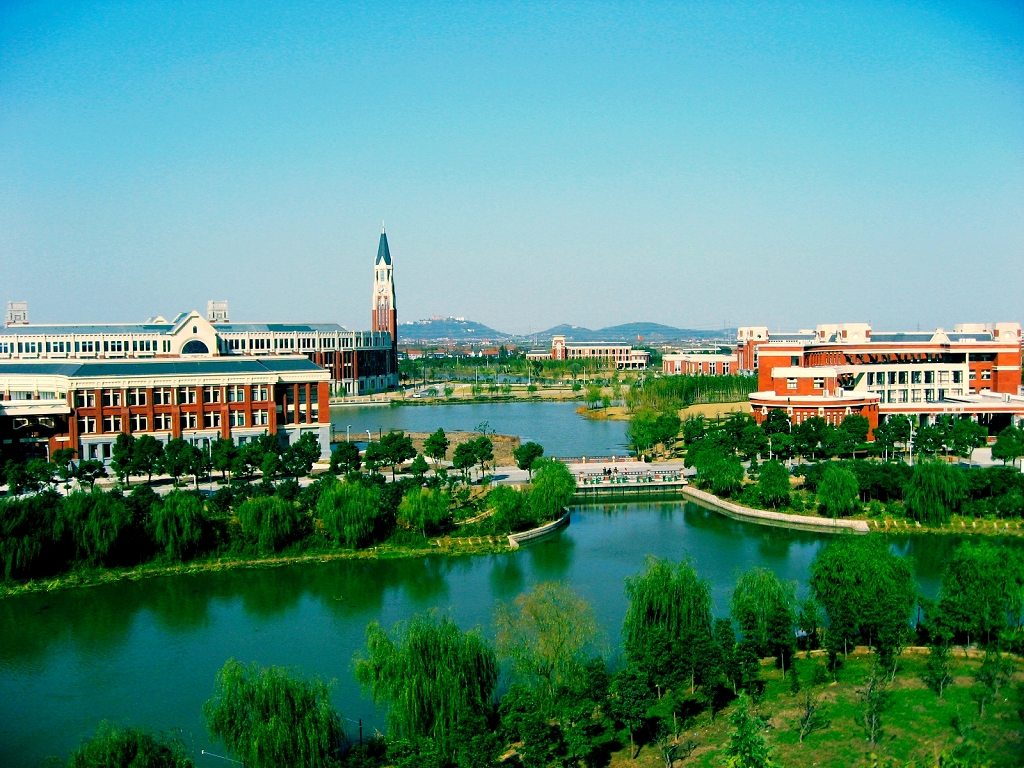 University City District in Songjiang